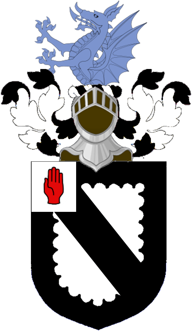 The armorial achievement of the Knyvett baronets of Buckenham